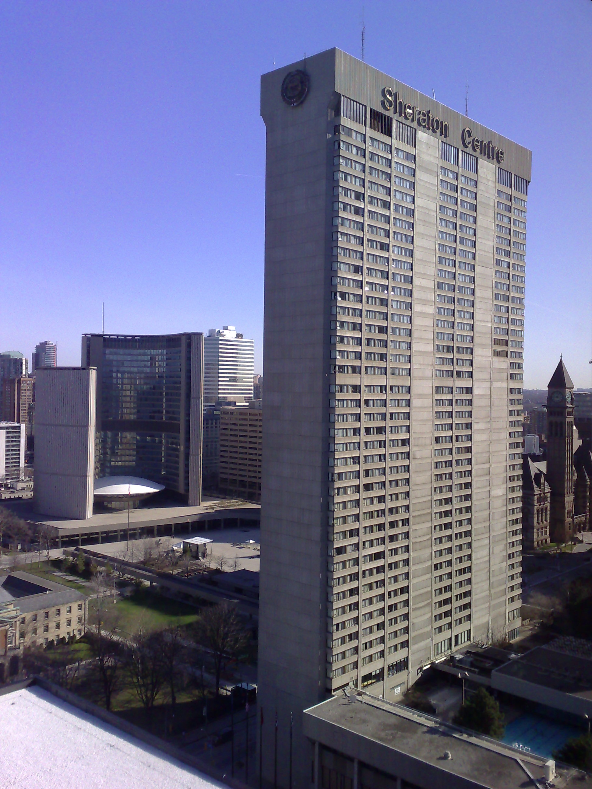 Sheraton Centre, Toronto, Canada (view of City Hall in background)Downtown toronto